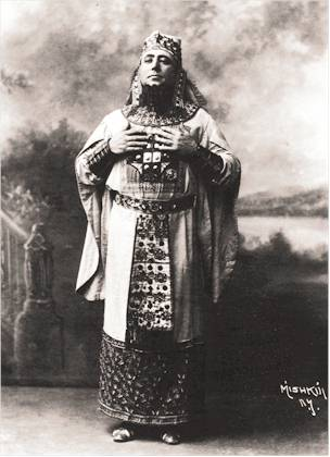 Spanish opera singer Jose Mardones (1869-1932) as Ramfis in "Aida" by Verdi